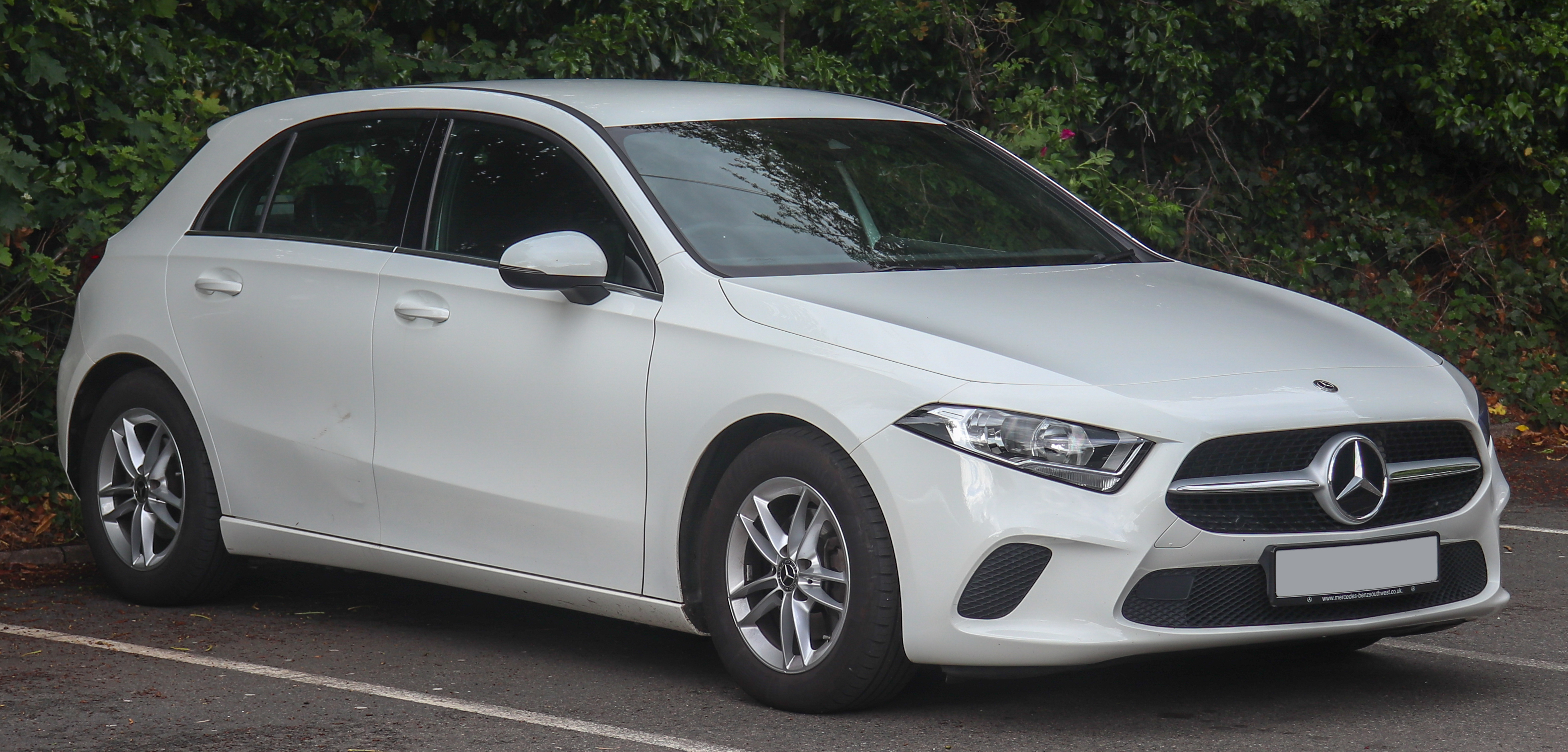 2018 Mercedes-Benz A180d SE Automatic 1.5 Taken in Warwick